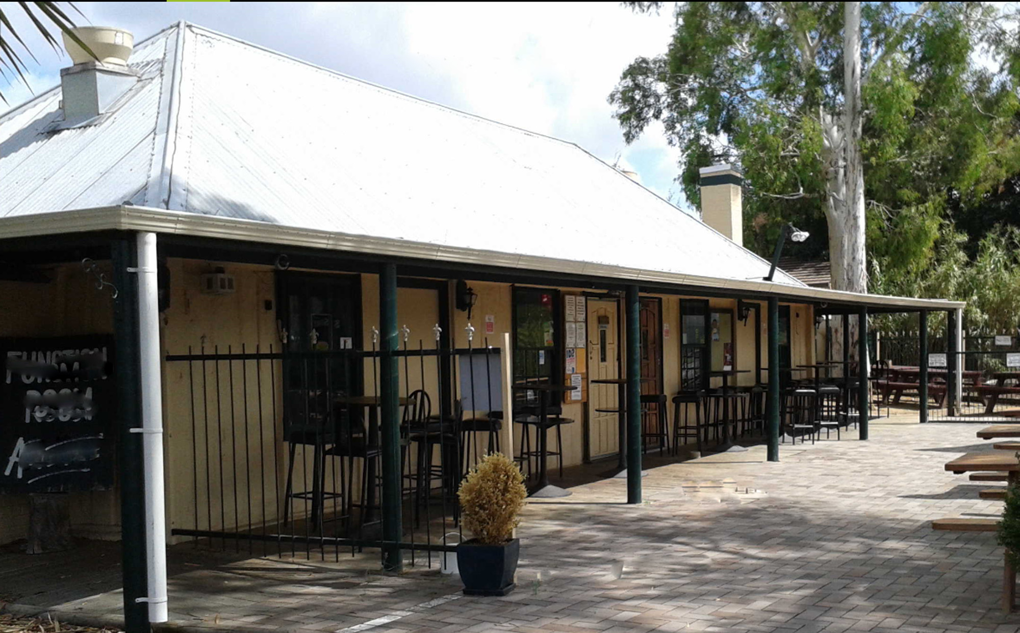 The Old Canberra Inn in the ACT